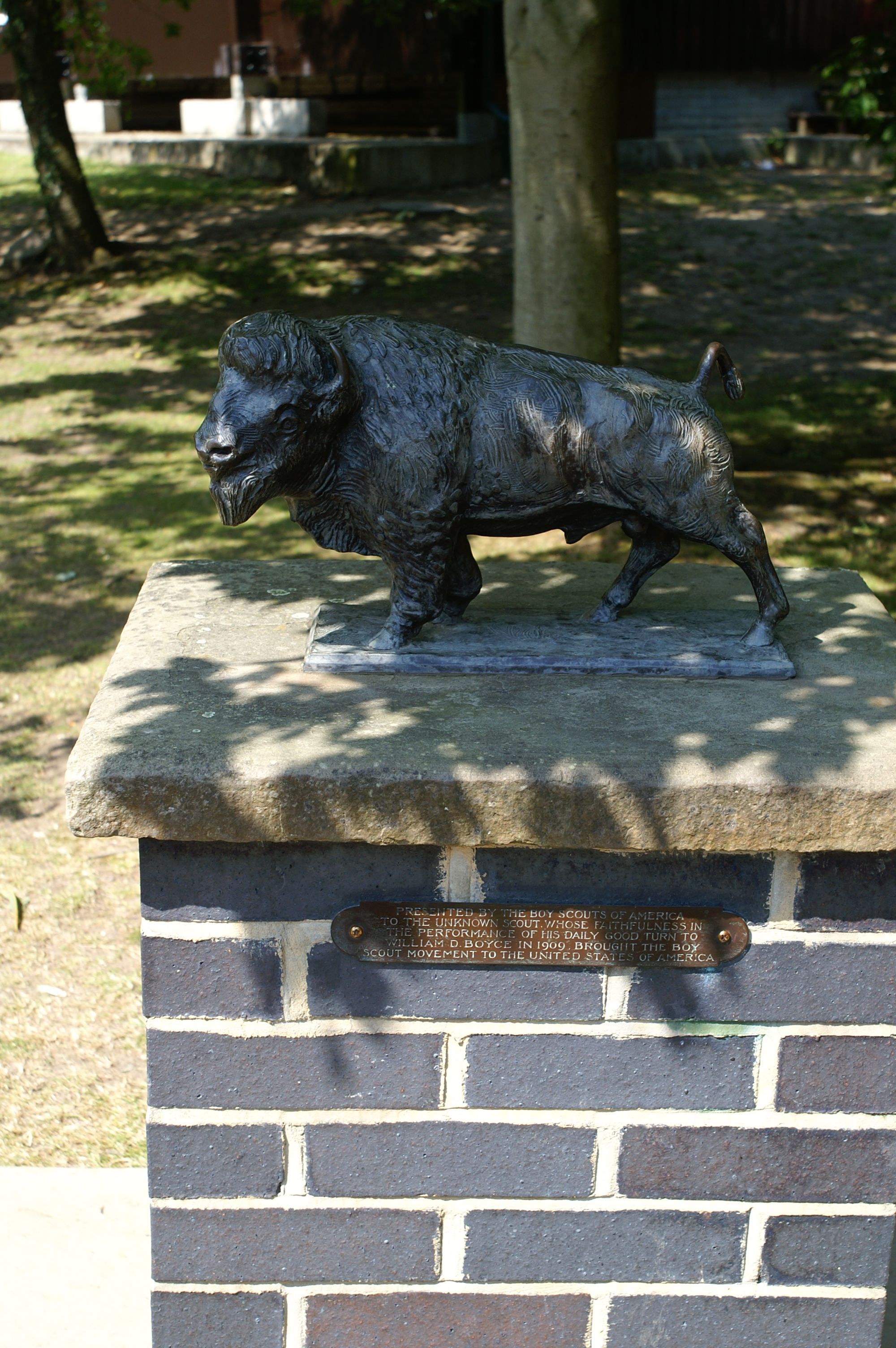 The Silver Buffalo Award to the Unknown Scout whose faithfulness in the performance of his Daily Good Turn to William D. Boyce in 1909 brought the Boy Scout Movement to the United States of America. (2007/08/01 Gilwell Park, London, UNITED KINGDOM)